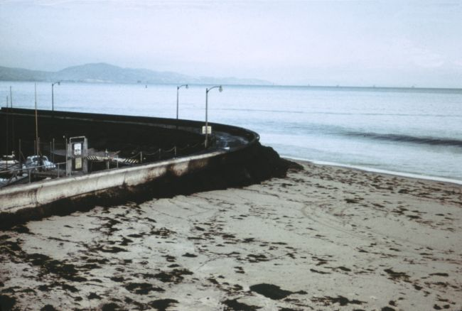 Oil piled up at the seawall, near the Santa Barbara Harbor, California, from the 1969 Santa Barbara oil spill.